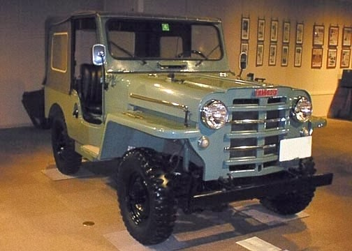 first generation Nissan Patrol